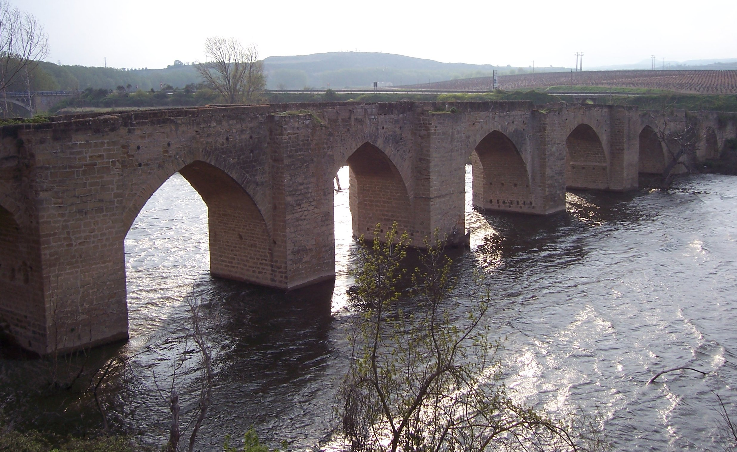 Bridge of Briñas on the Ebro river in Haro, La Rioja (Spain)